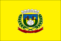 Flags of the city of Augusto de Lima, Minas Gerais , Brazil.